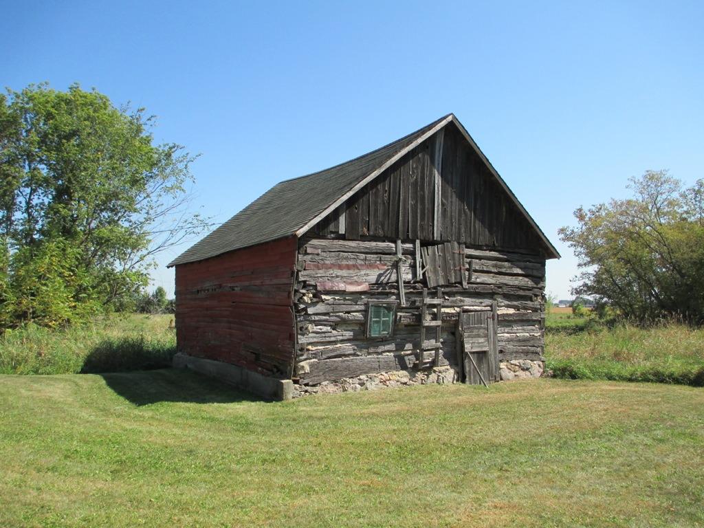 An outbuilding from the Anton Gogala Farmstead, near the intersection of Co. Hwy. 39 and MN 238